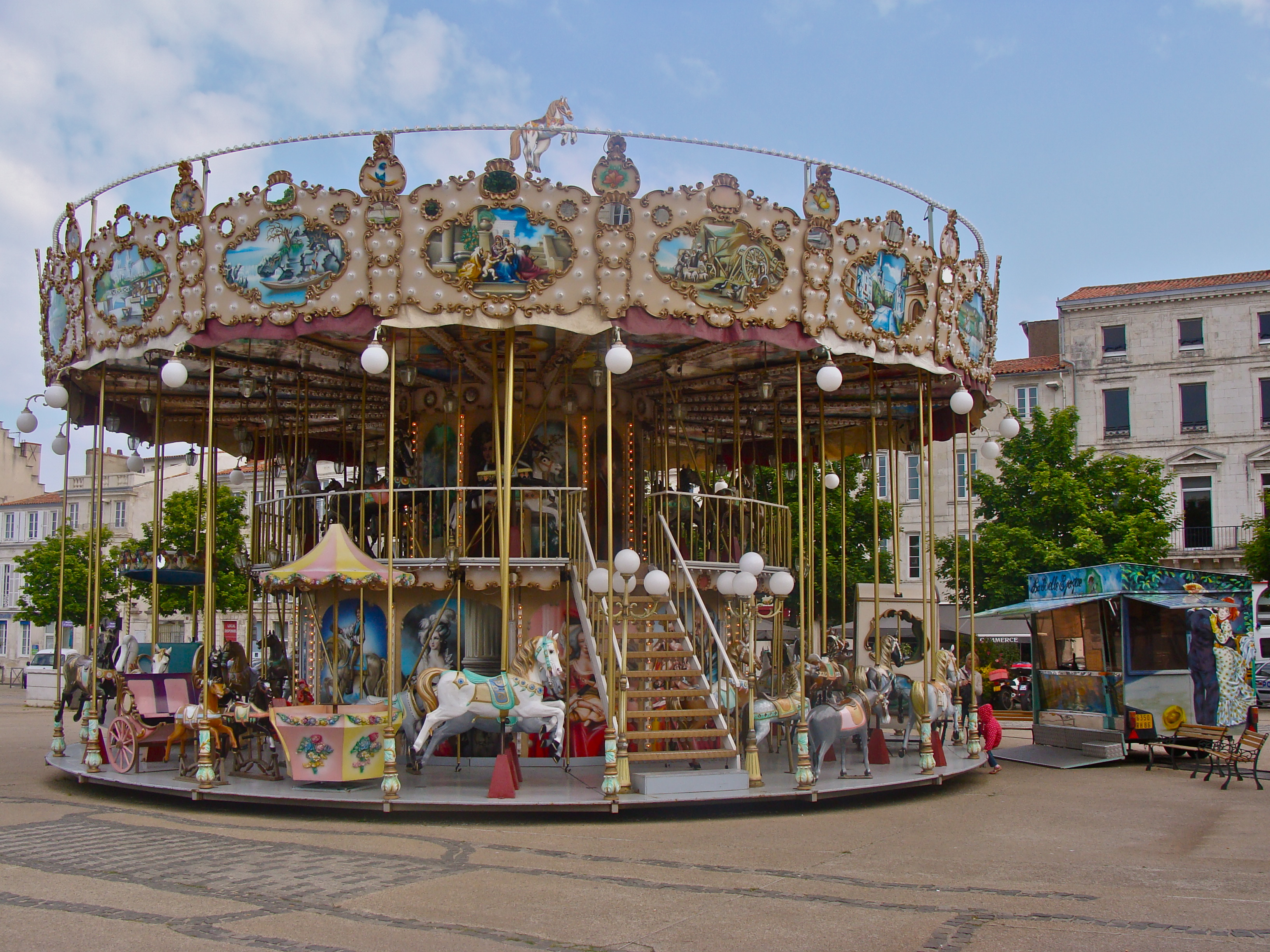 a french old fashioned merry-go-round, with stairs, two floors, and its cash-cabin, In La Rochelle, France